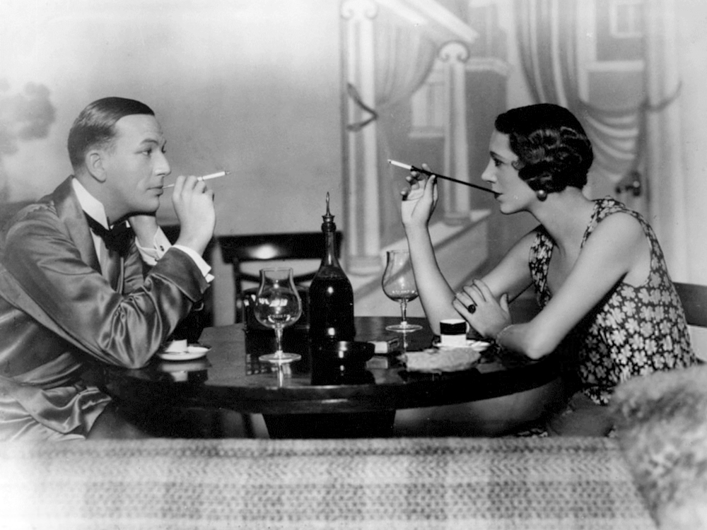 Promotional photograph of Noel Coward and Gertrude Lawrence in the Broadway production of Private Lives